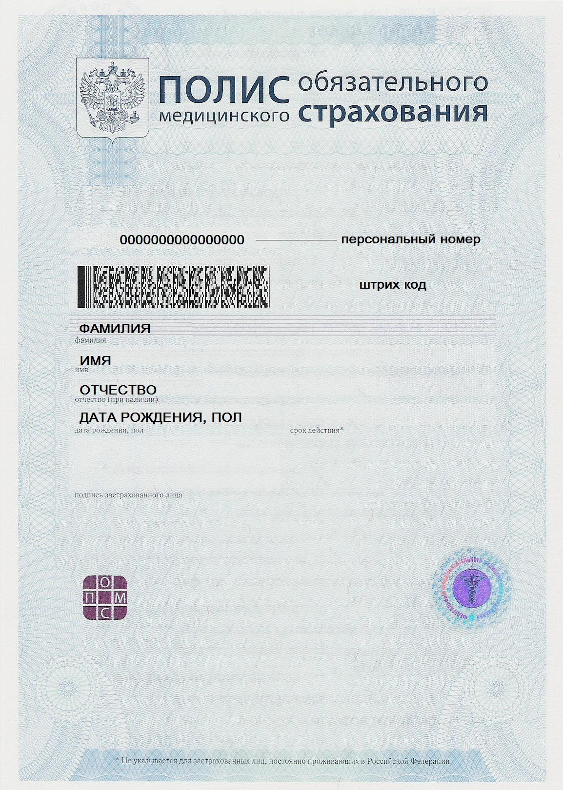 Example of mandatory health insurance policy (Russia), adopted by the Federal law of Russia. The form of policy was entered into circulation at 1 may 2011. The policy equiped with watermarks and hologram for protection. Contains a bar code with personal data of the insured.